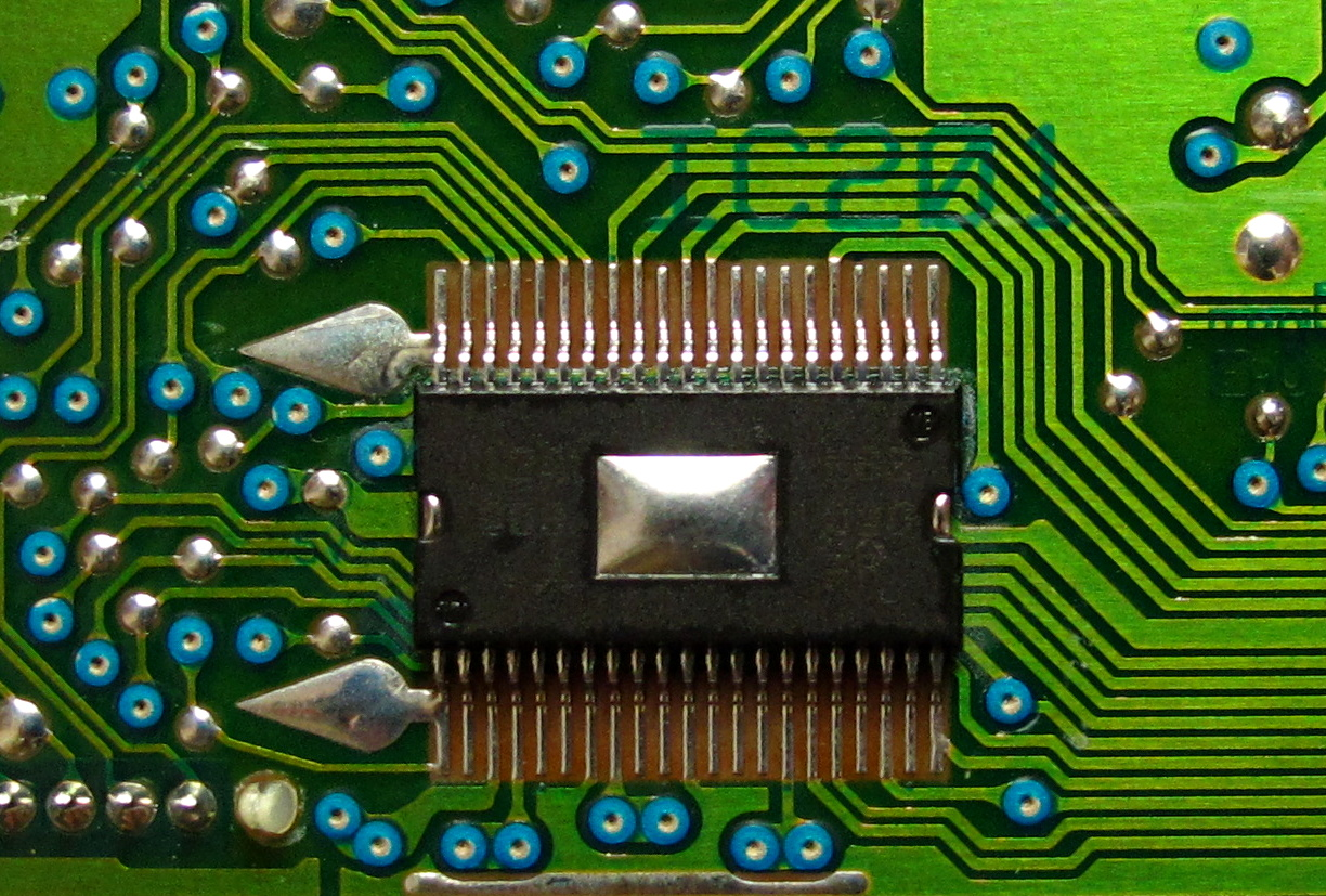 SMD circuit (SO case) fitted on a wave soldered printed circuit board on the bottom side with two special pcb footprints in spade shape on the left side to peel off the solder.